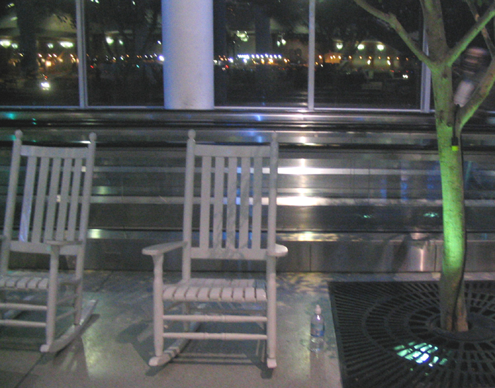 Charlotte Douglas International Airport: Rocking Chair. Feb. 2005